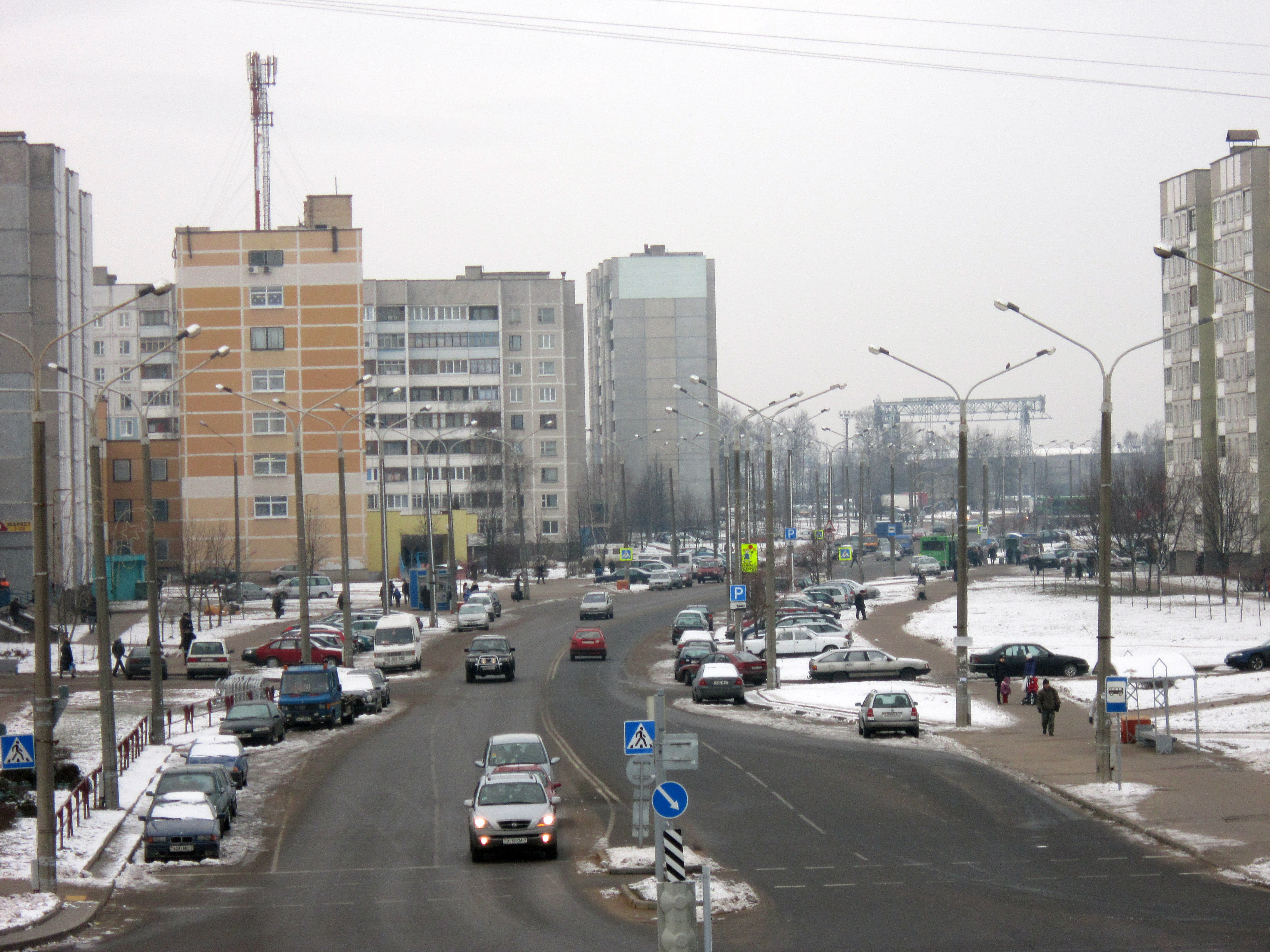 Ales' Bachilo street in Minsk